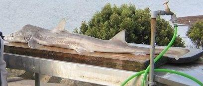 Gummy Shark caught in Hastings, Western Point, Victoria. Bait used was cured eel.